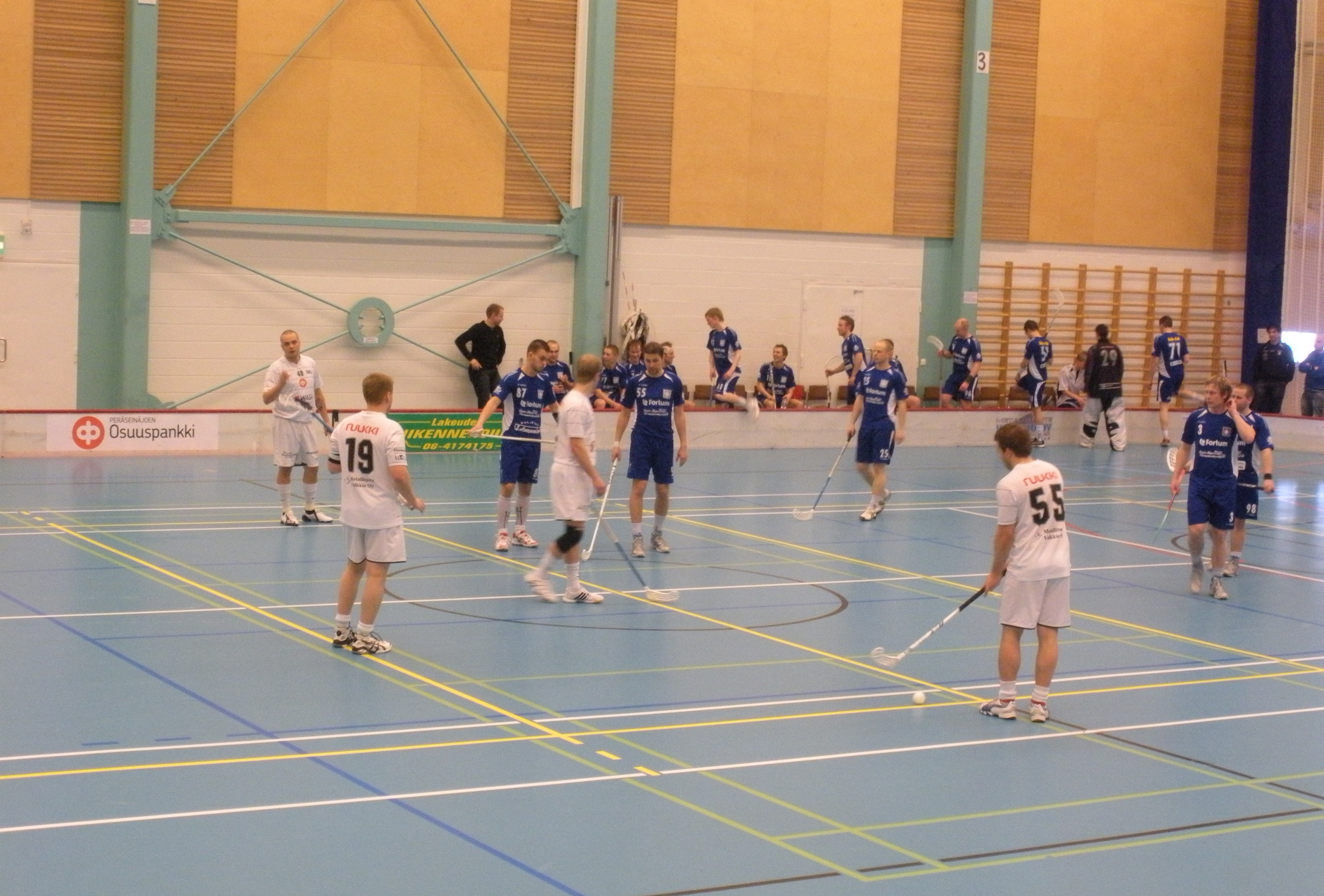 Floorball game Peto vs. Nibacos. Peto is white and Nibacos is blue team.